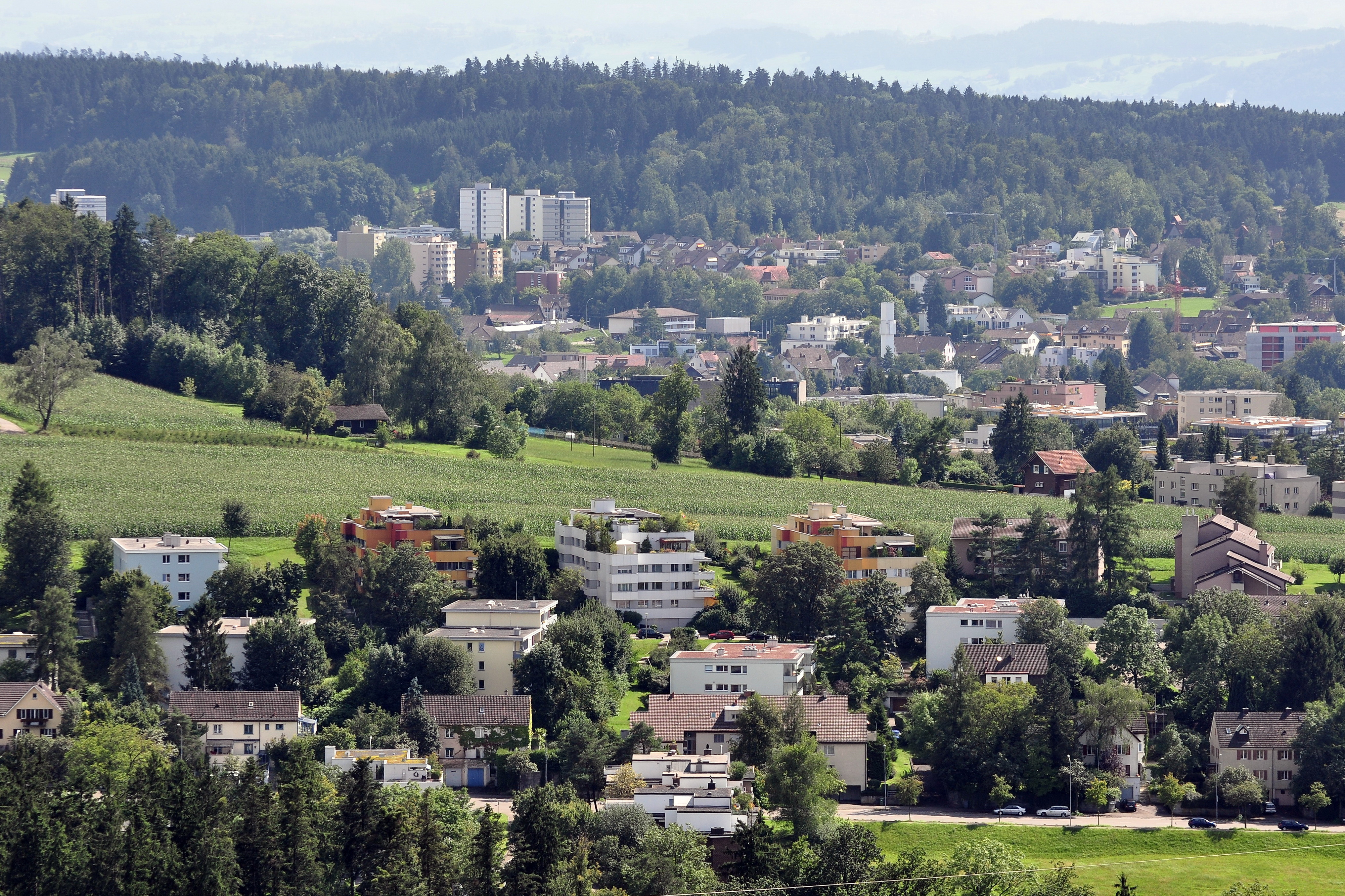 Zollikerberg and parts of Zürich-Witikon as seen from the Loorenkopf tower on Adlisberg (Switzerland)